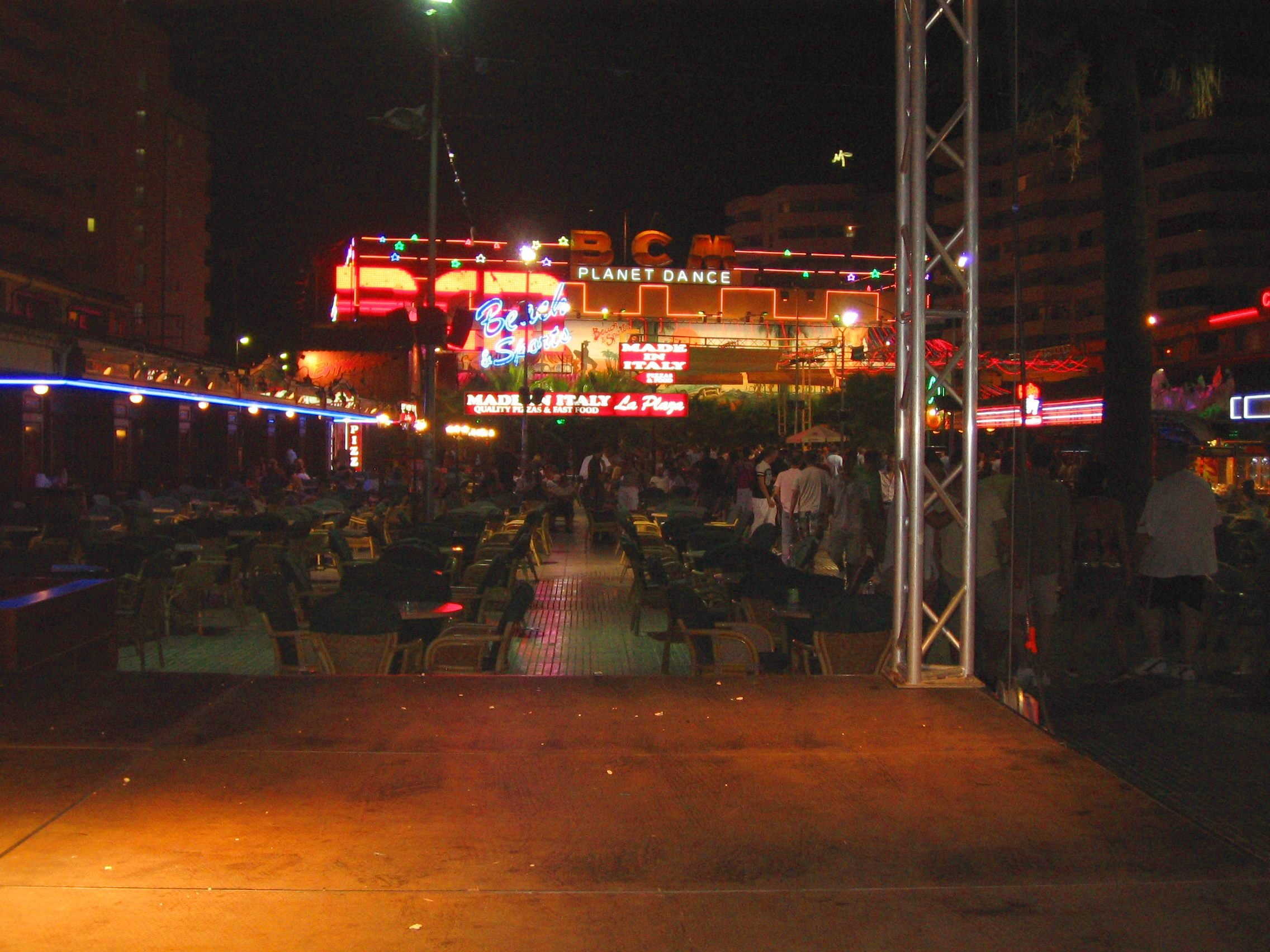 This is the BCM Boulevard in Magalluf.